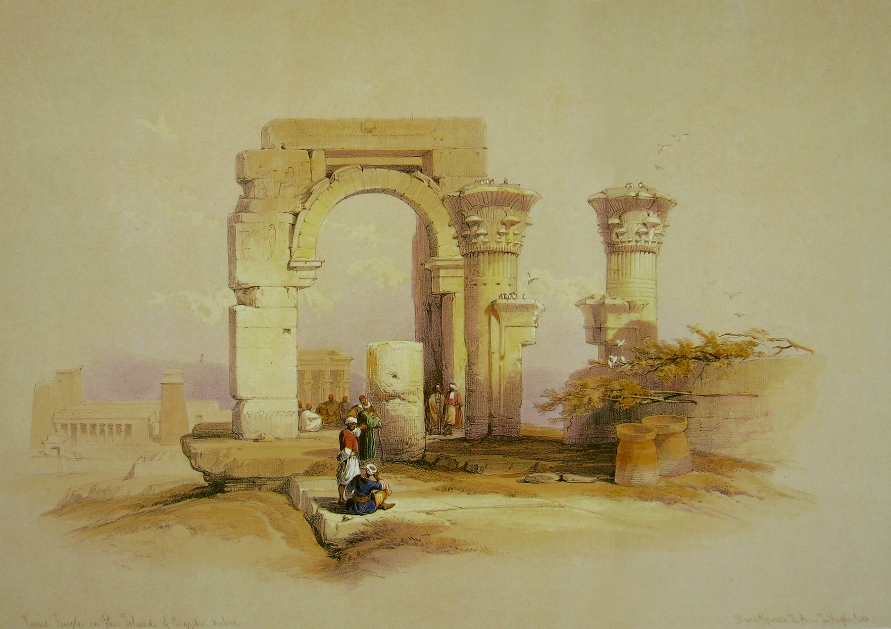 "Part of the ruins of a temple on the Island of Bigge" (Bigeh), in the Nile, Nubia. View (backround) of the Island of Philae, with Isis Temple and Trajan's Kiosk. 1838 engraving-painting by David Roberts.